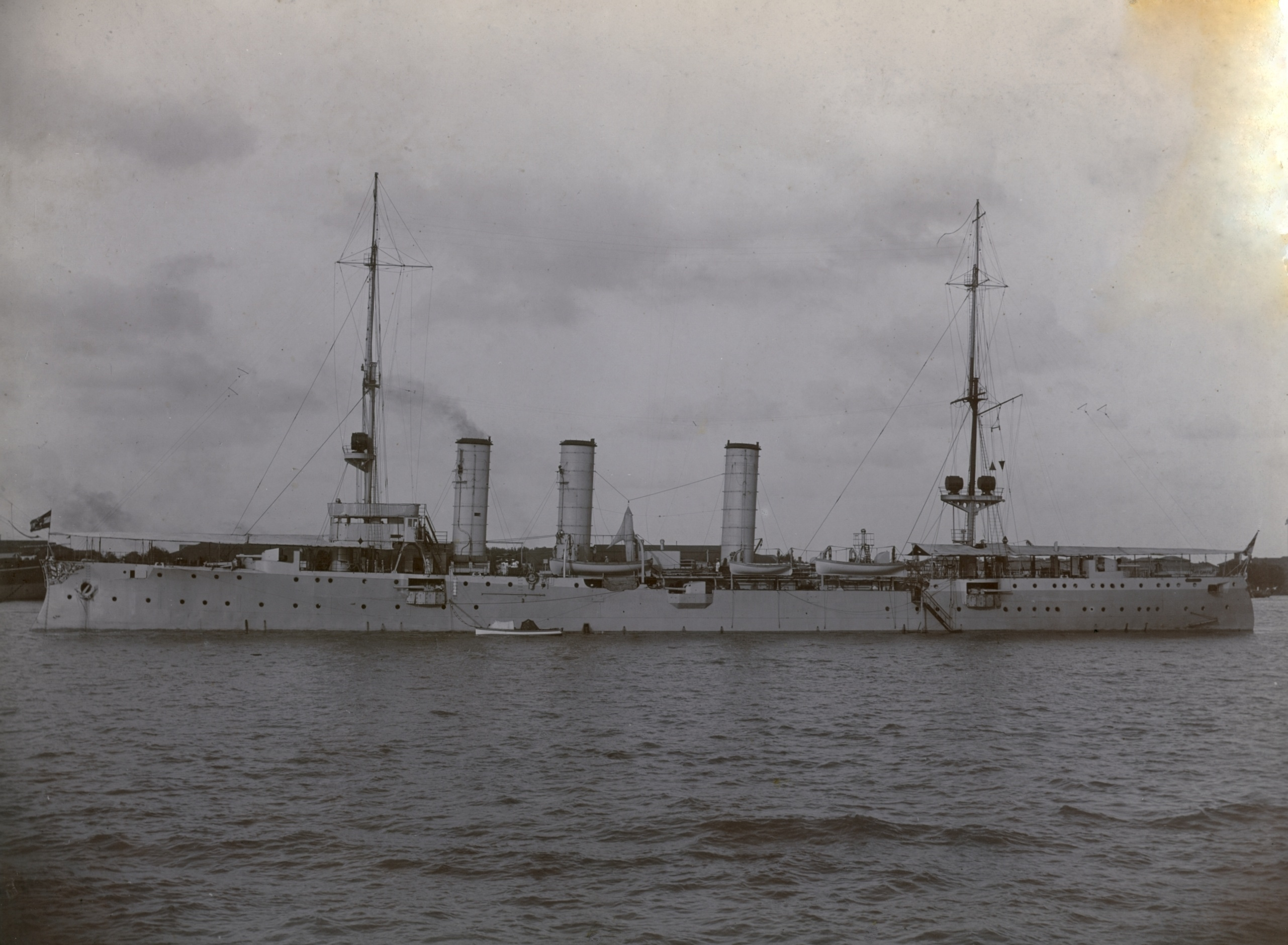 SMS Nürnbergs sideline